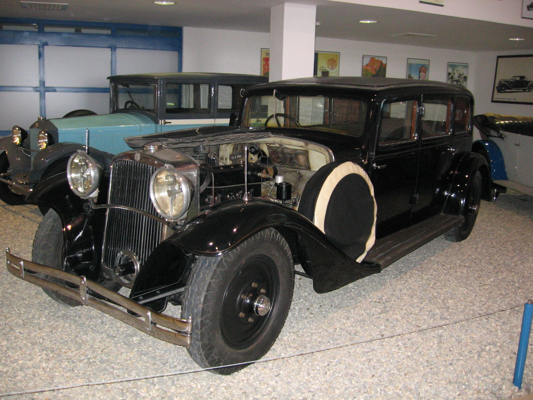 Tatra 70 at Tatra museum